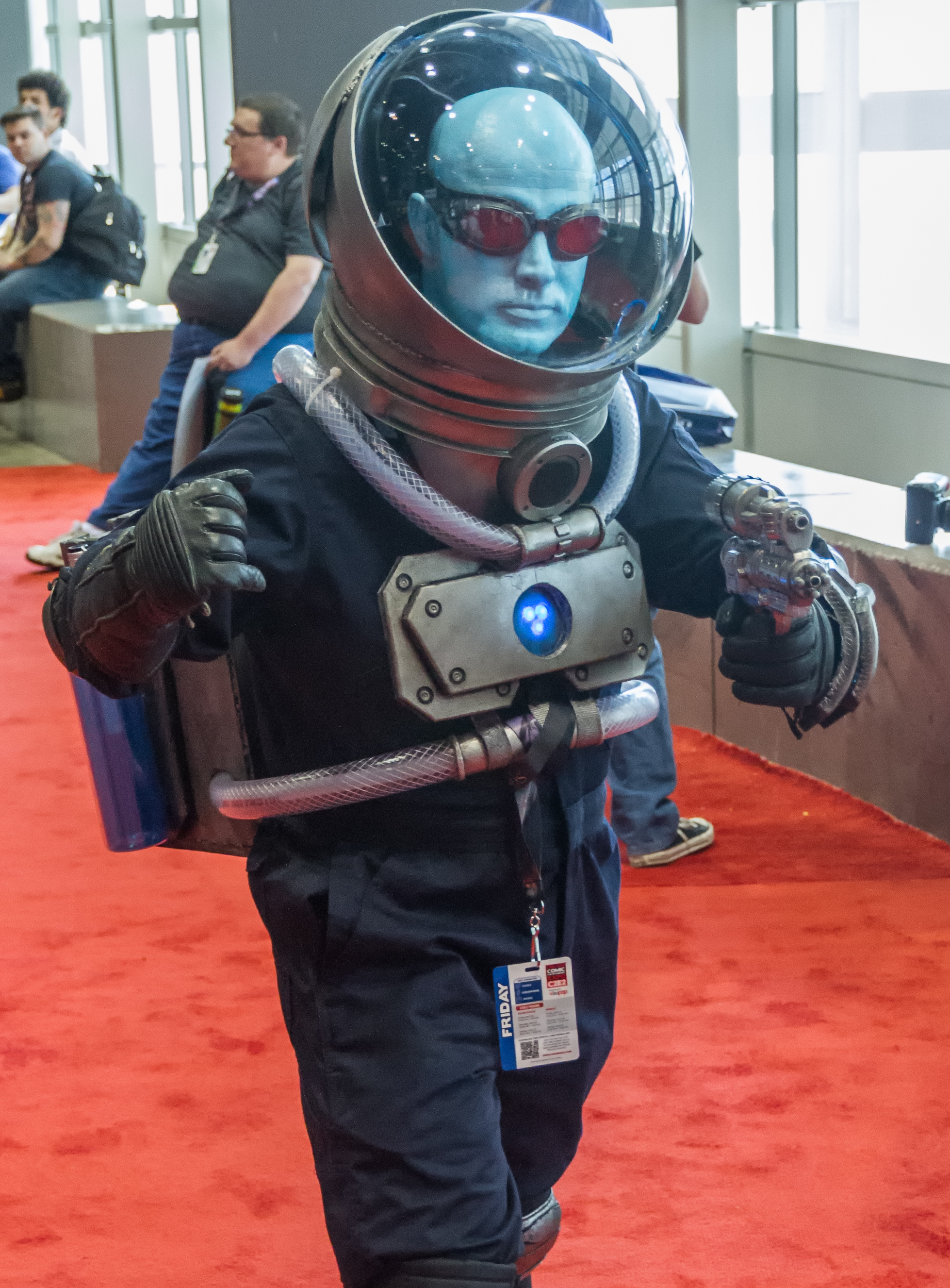 Chill Out